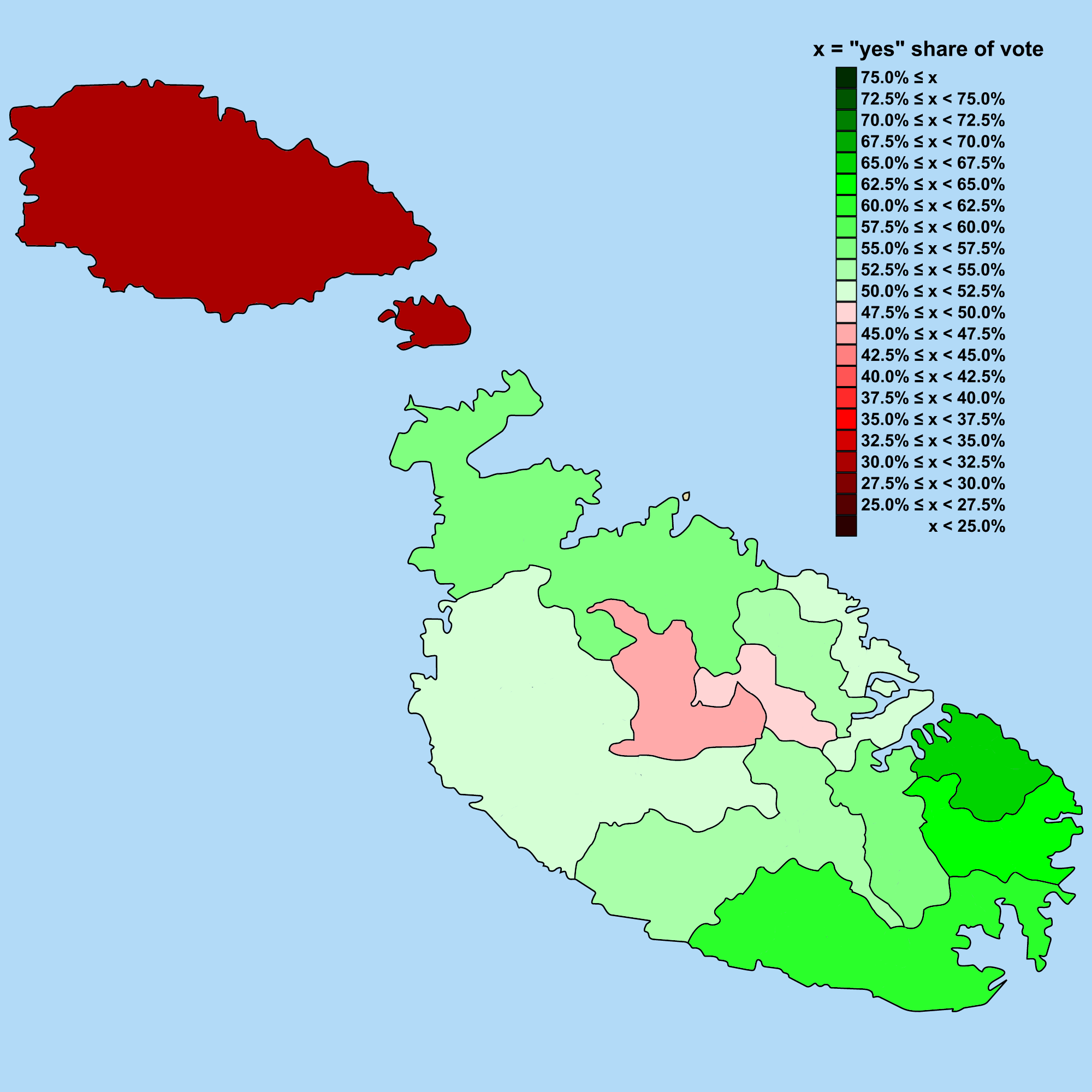 Based upon File:Northern_Harbour_District-map.svg and File:Scottish_independence_referendum_results.svg. Legend: 55.0-57.5% Yes 52.5-55.0% Yes 50.0-52.5% Yes 50.0-52.5% No 52.5-55.0% No 55.0-57.5% No 57.5-60.0% No 60.0-62.5% No 62.5-65.0% No 65.0-67.5% No